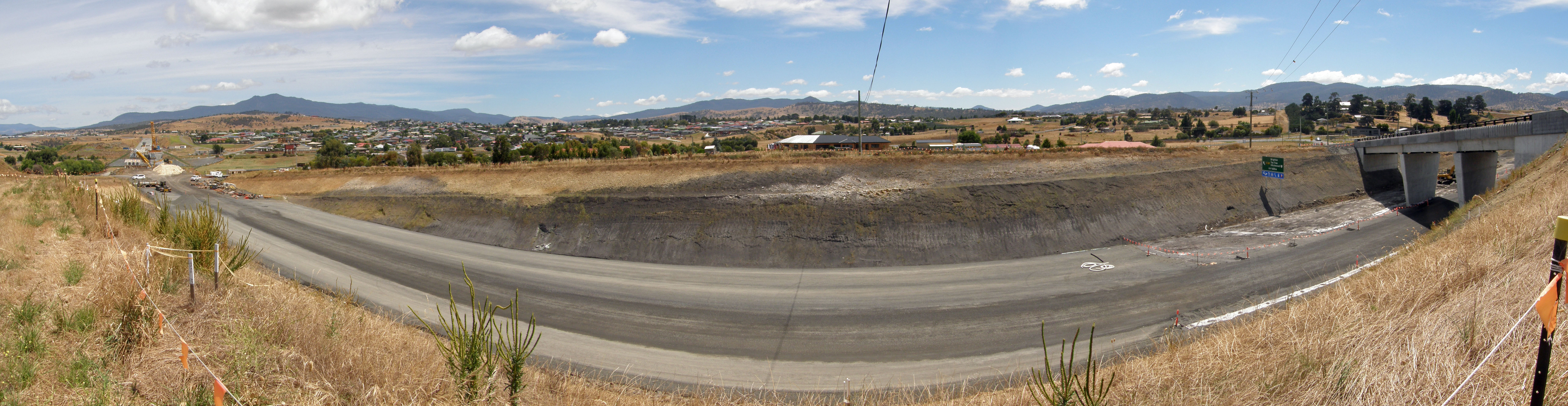 A panoramic photo of the Brighton Bypass with both the Jordan River Levee and Griggs Road visible. This picture was taken on 2012-01-25